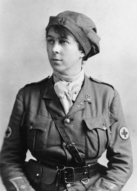 Grace Mcdougall FANY nurse during WW1 guess date as 1915